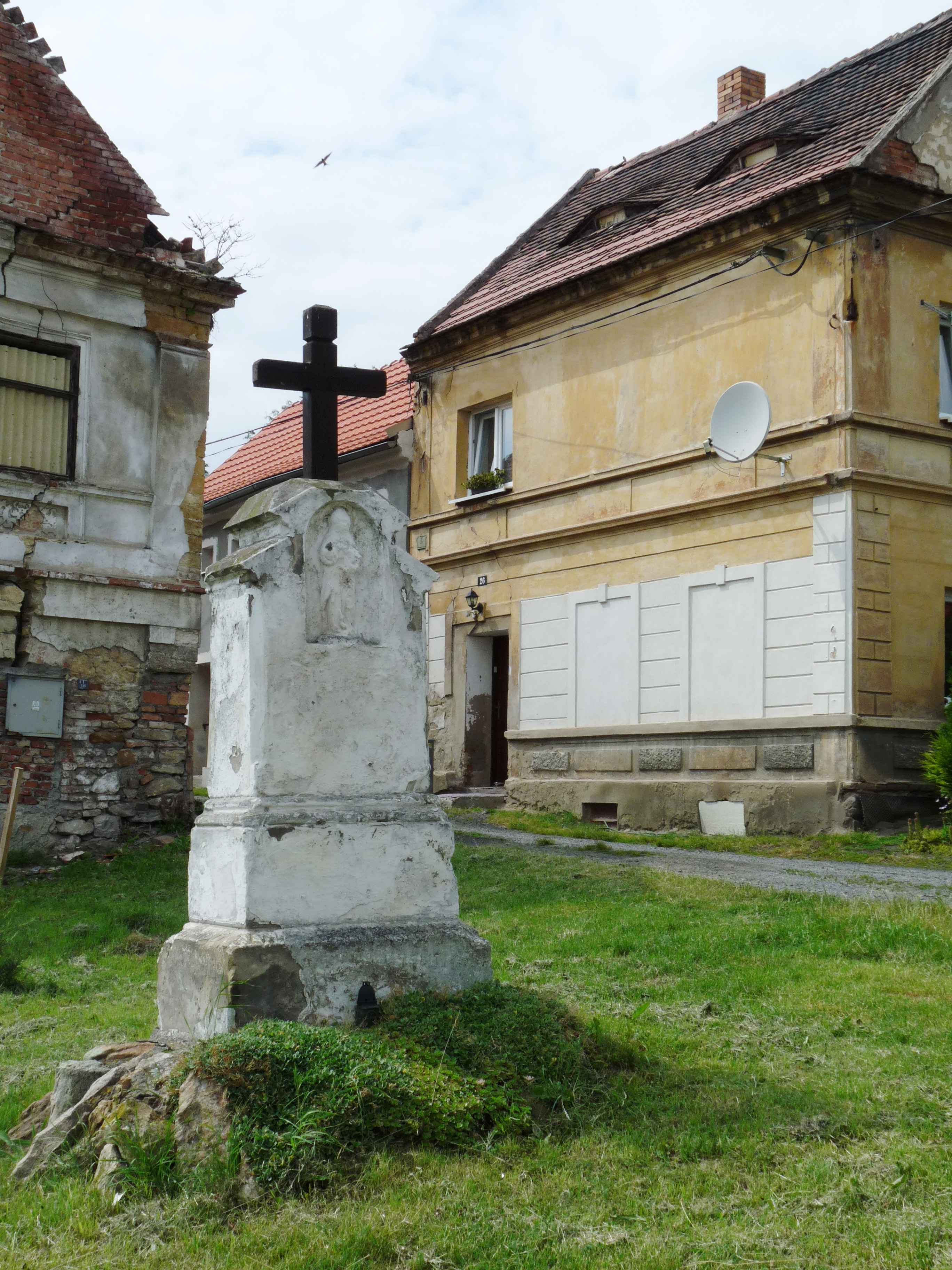 Wayside cross in the village of Jablonec, Louny District, Ústí nad Labem Region, Czech Republic.